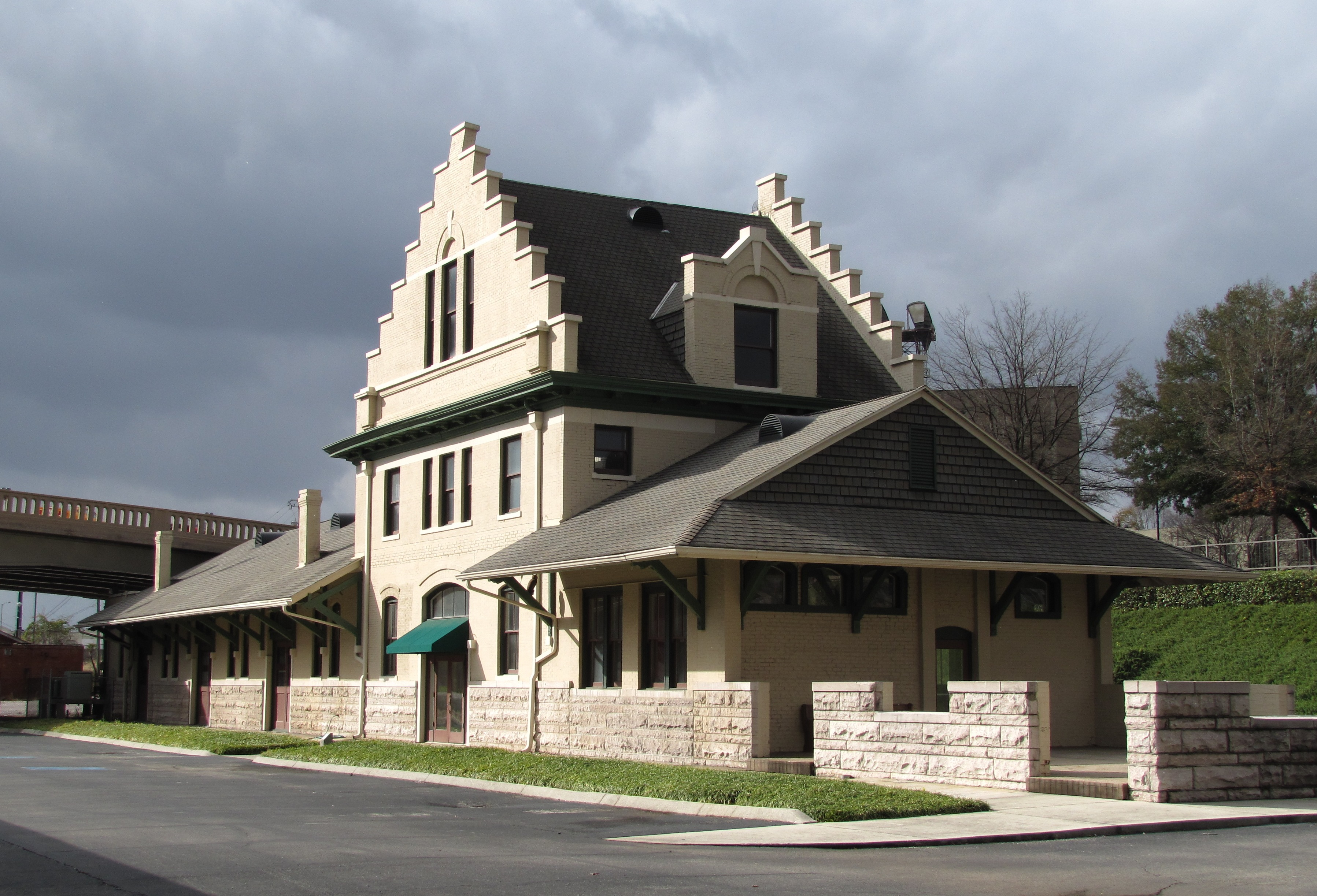 The Southern Railway Freight Depot in Knoxville, Tennessee, USA. Built in 1904, this building is now a contributing property within the NRHP-listed Southern Terminal and Warehouse Historic District.